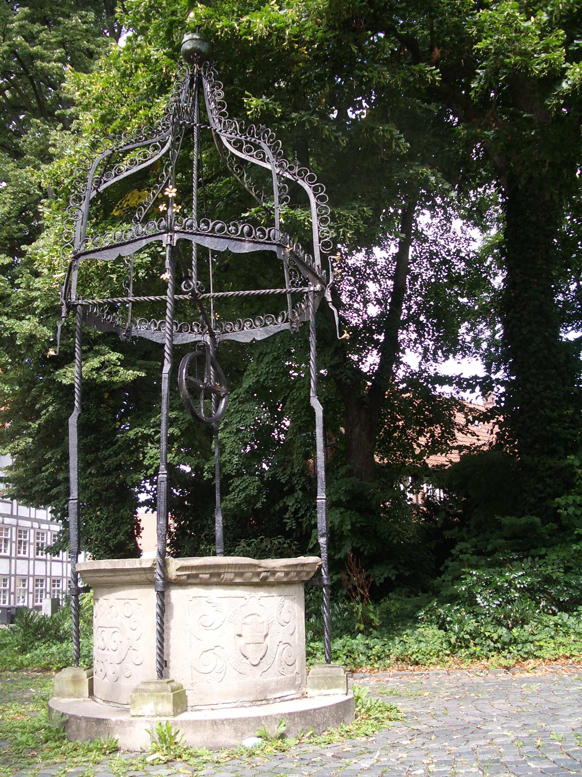 Well in town of Herford, District of Herford, North Rhine-Westphalia, Germany.